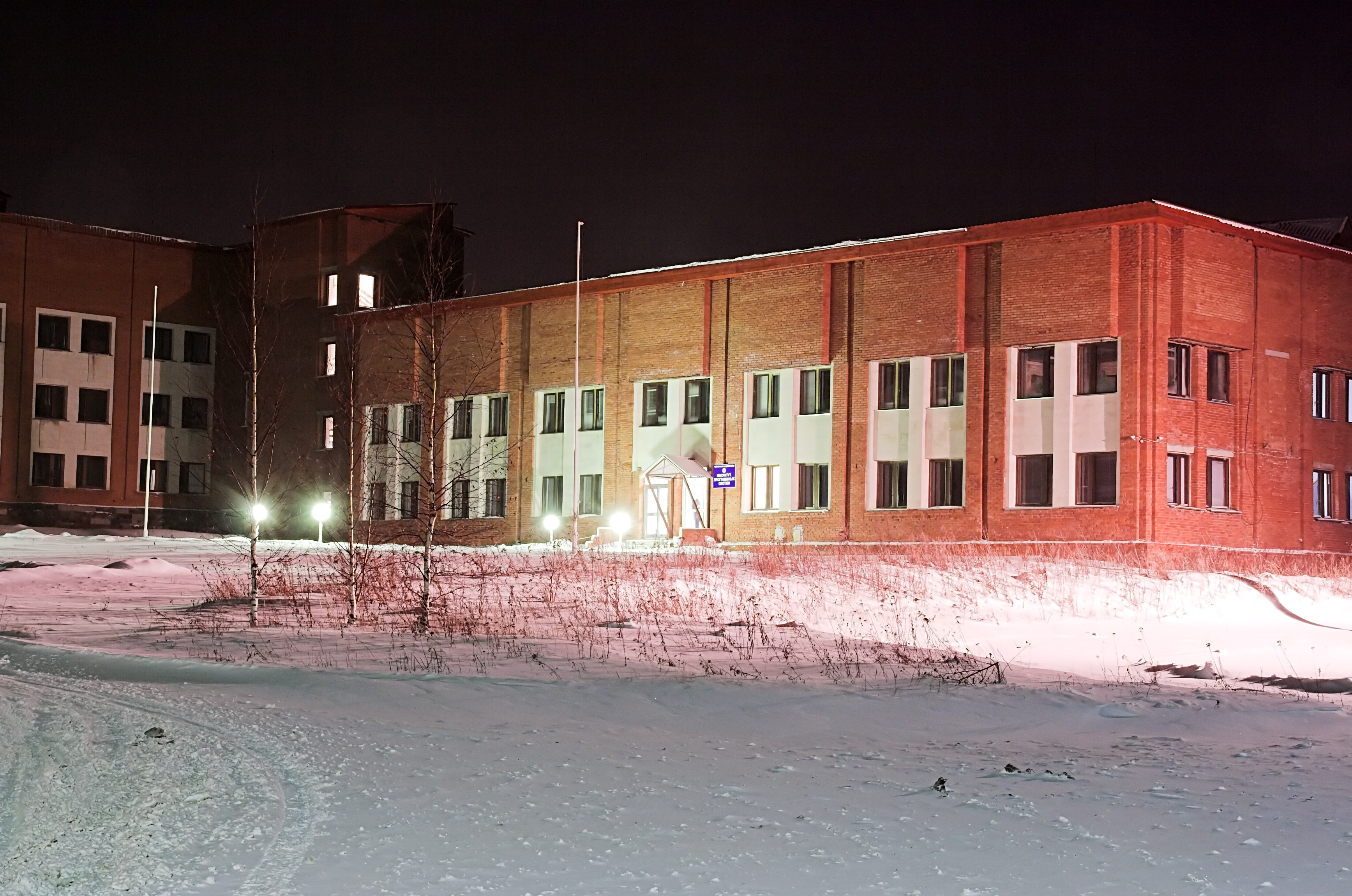 IPS RAN